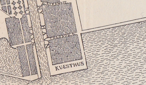 Map detail showing the location of the Kbæsthus at presentday Kvæsthusgade and Sankt Annæ Plads in Copenhagen, Denmark